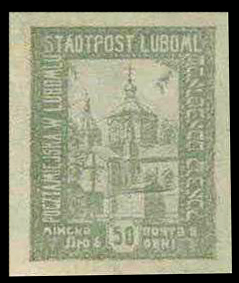 Stamp of Luboml. Orthodox church, 1919